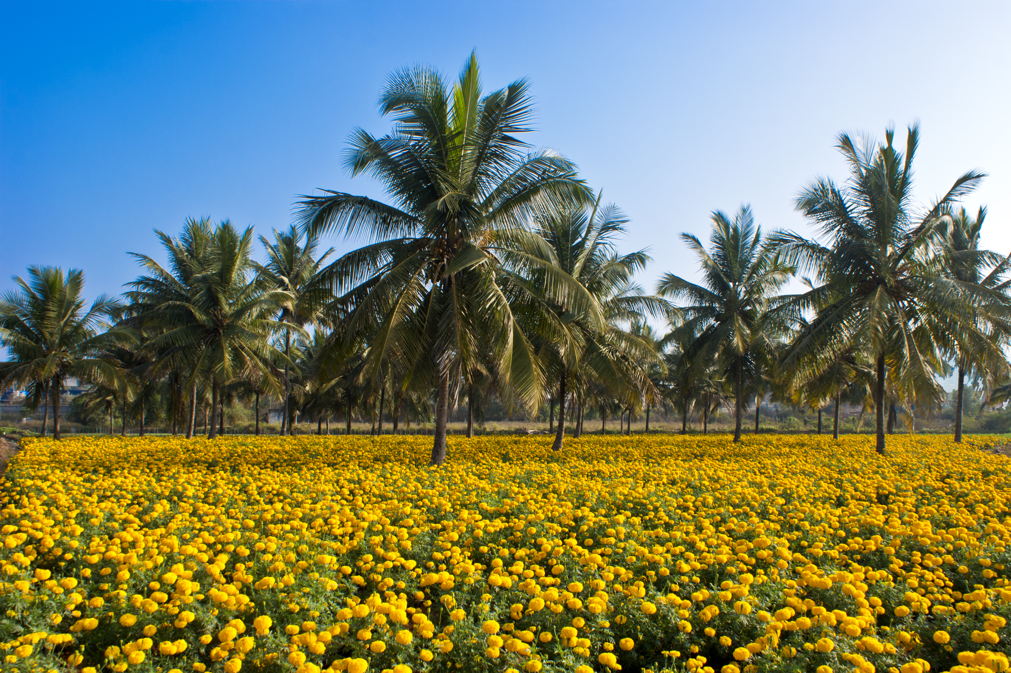 Intercropping coconut and Tagetes erecta flowers in Kerala, India.